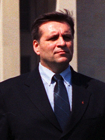 Boris Trajkovski, former president of the Republic of Macedonia (1999 - 2004).